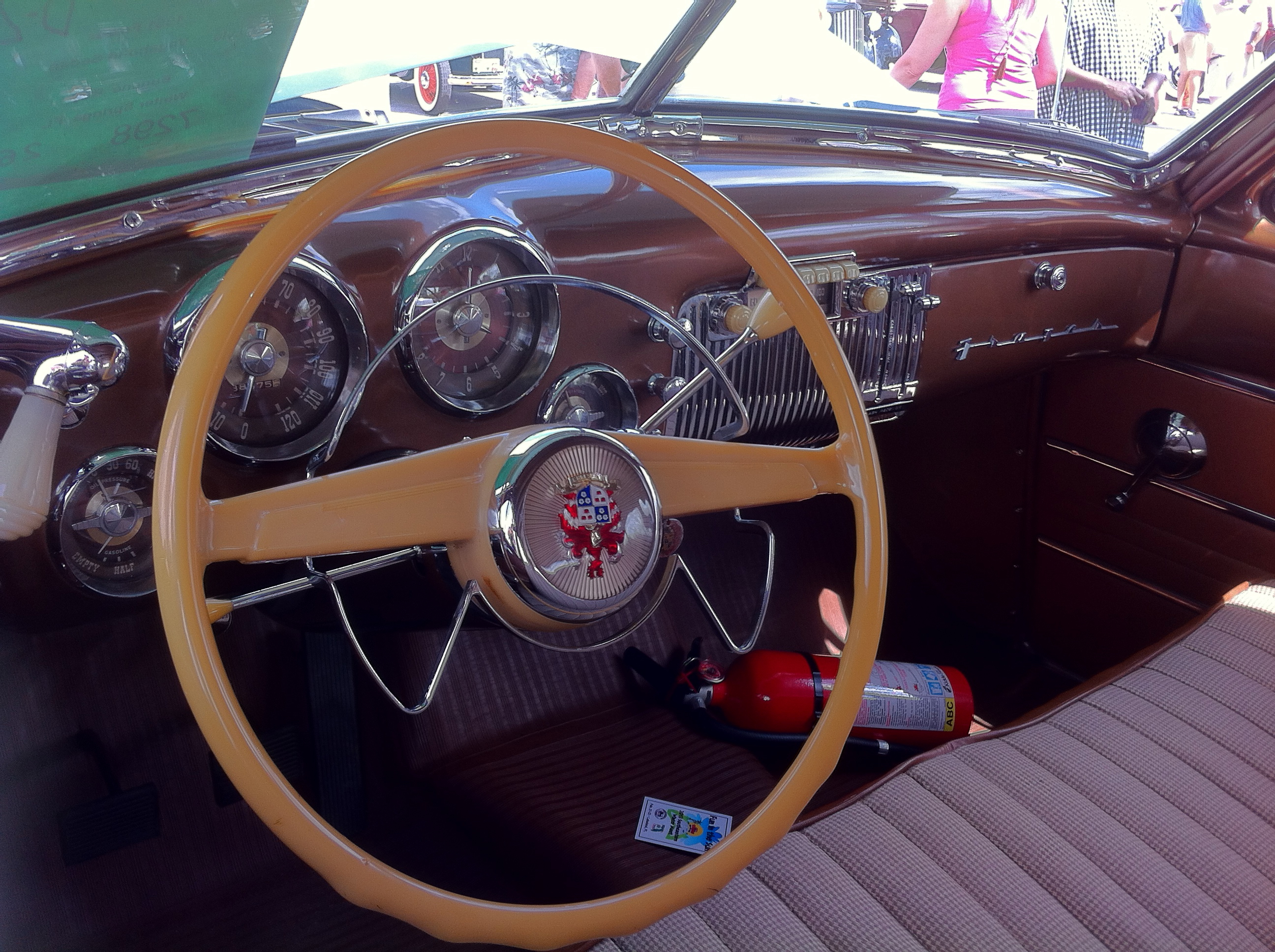 1951 Kaiser-Frazer Vagabond hatchback four-door sedan. Picture taken at the 2013 Antique Automobile Club of America (AACA) meet in Lakeland, Florida, USA.